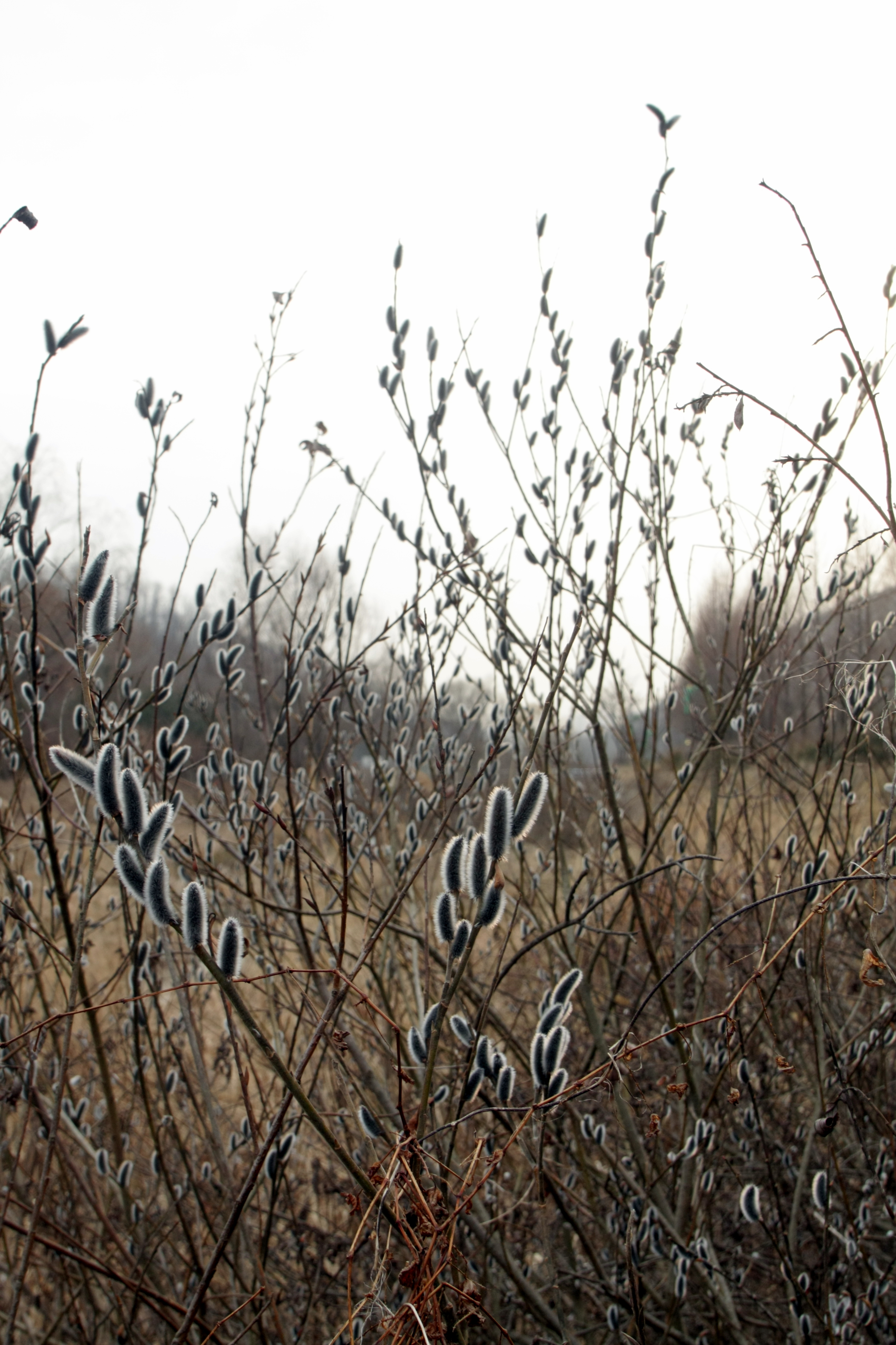 Salix gracilistyla